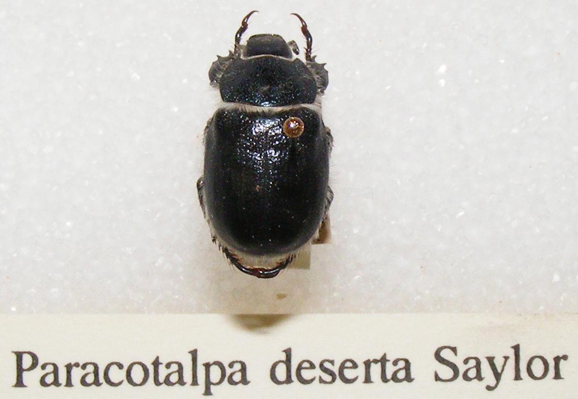 Paracotalpa deserta adult from the Texas A&M University Insect Collection